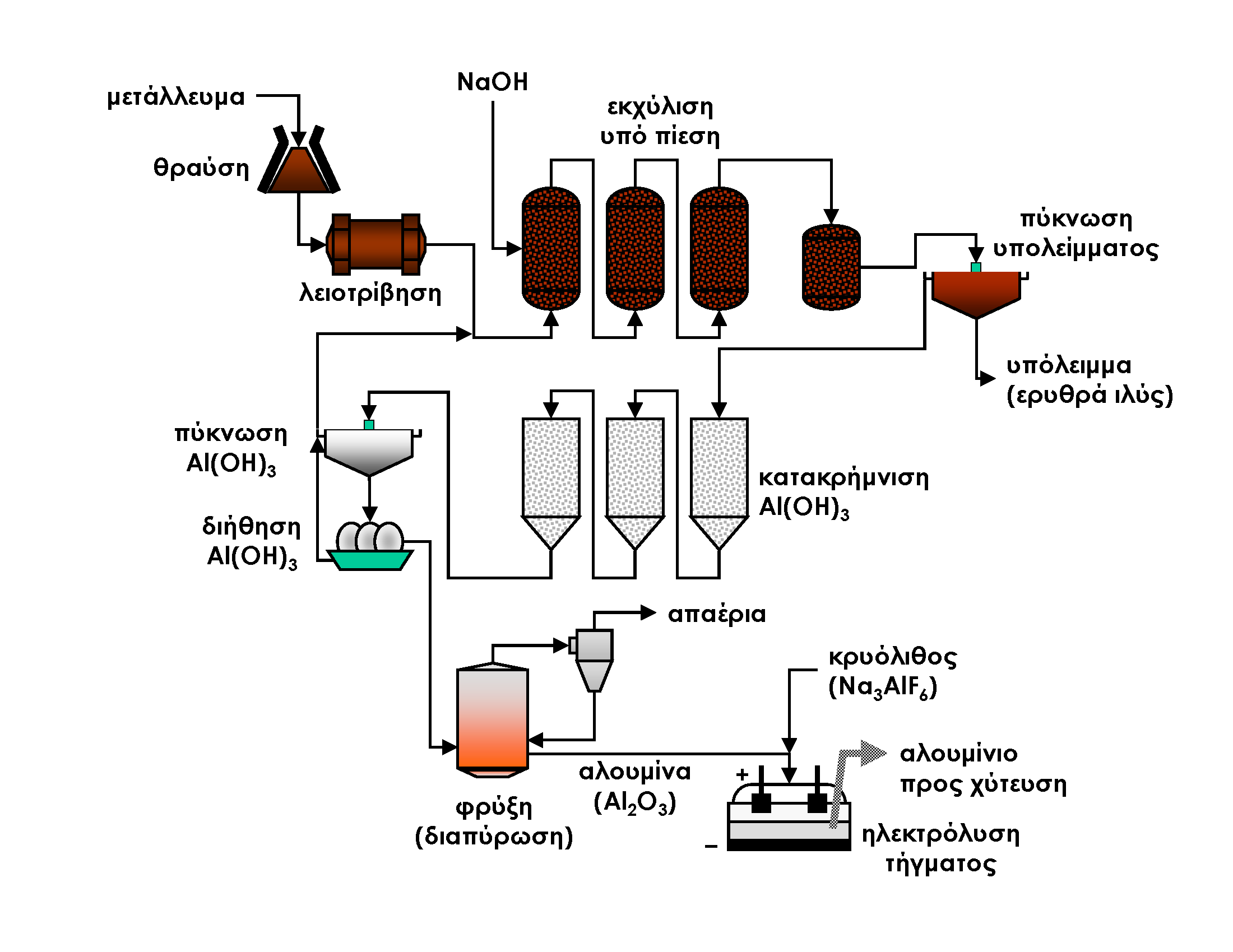 Production of aluminium